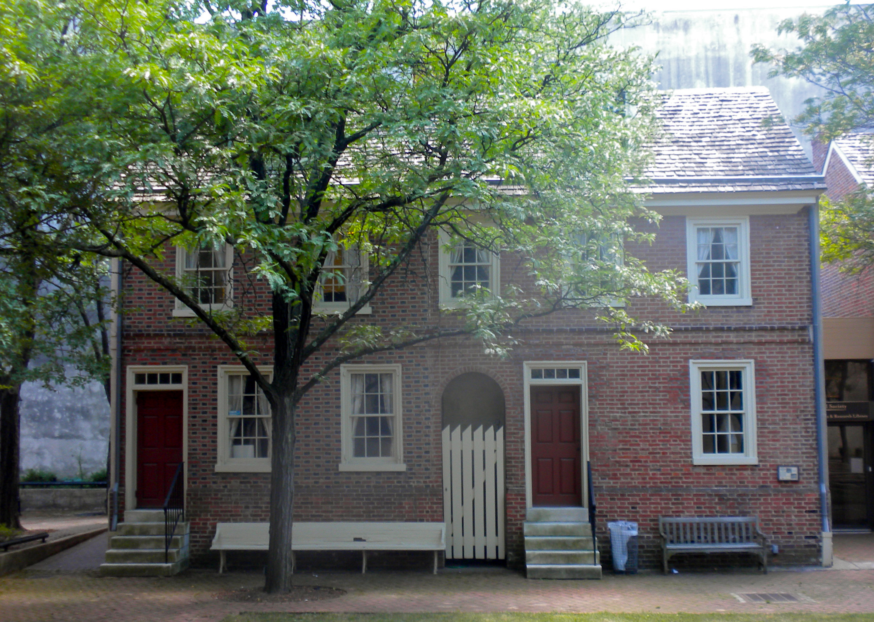 The Jacob (left) and Obidiah (right) Dingee Houses on the NRHP since October 21, 1970. They were located at 105 and 107 E. 7th St. in Wilmington, Delaware, but have since been moved to Willington Square off Market Street in Wilmington. The front of both is laid in Flemish bond, but the Obidiah Dingee house does not use black-glazed headers, as does the Jacob Dingee house, and is slightly younger. Both Dingees were cabinet makers.